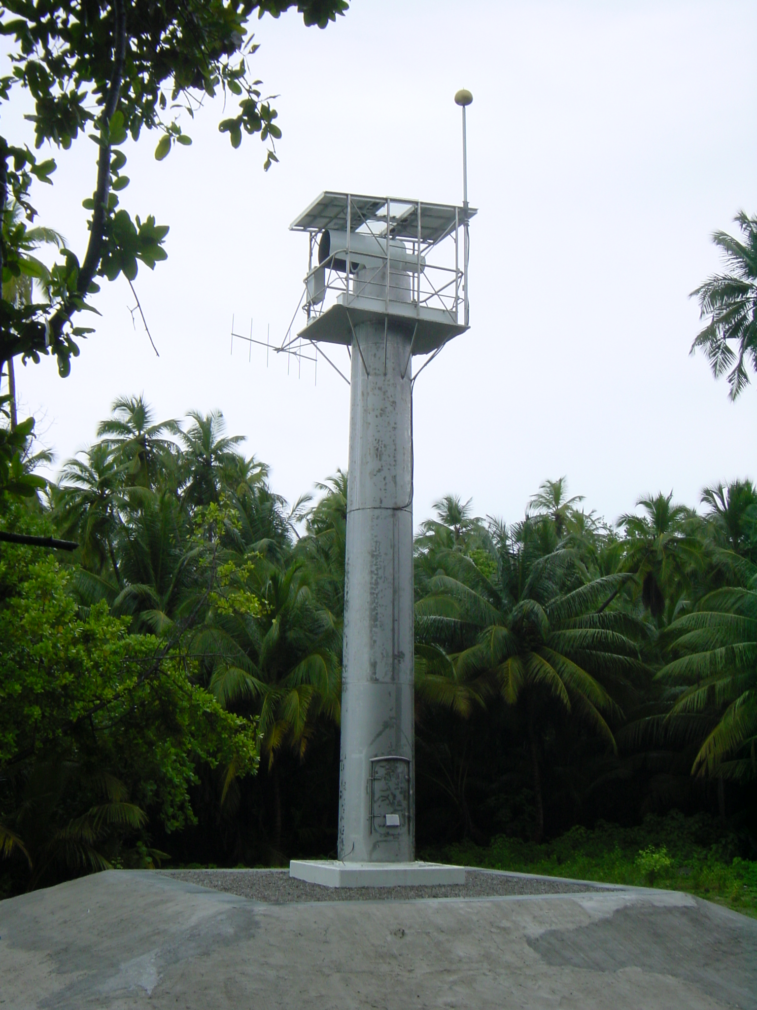 Diego Garcia PEL Sector Light